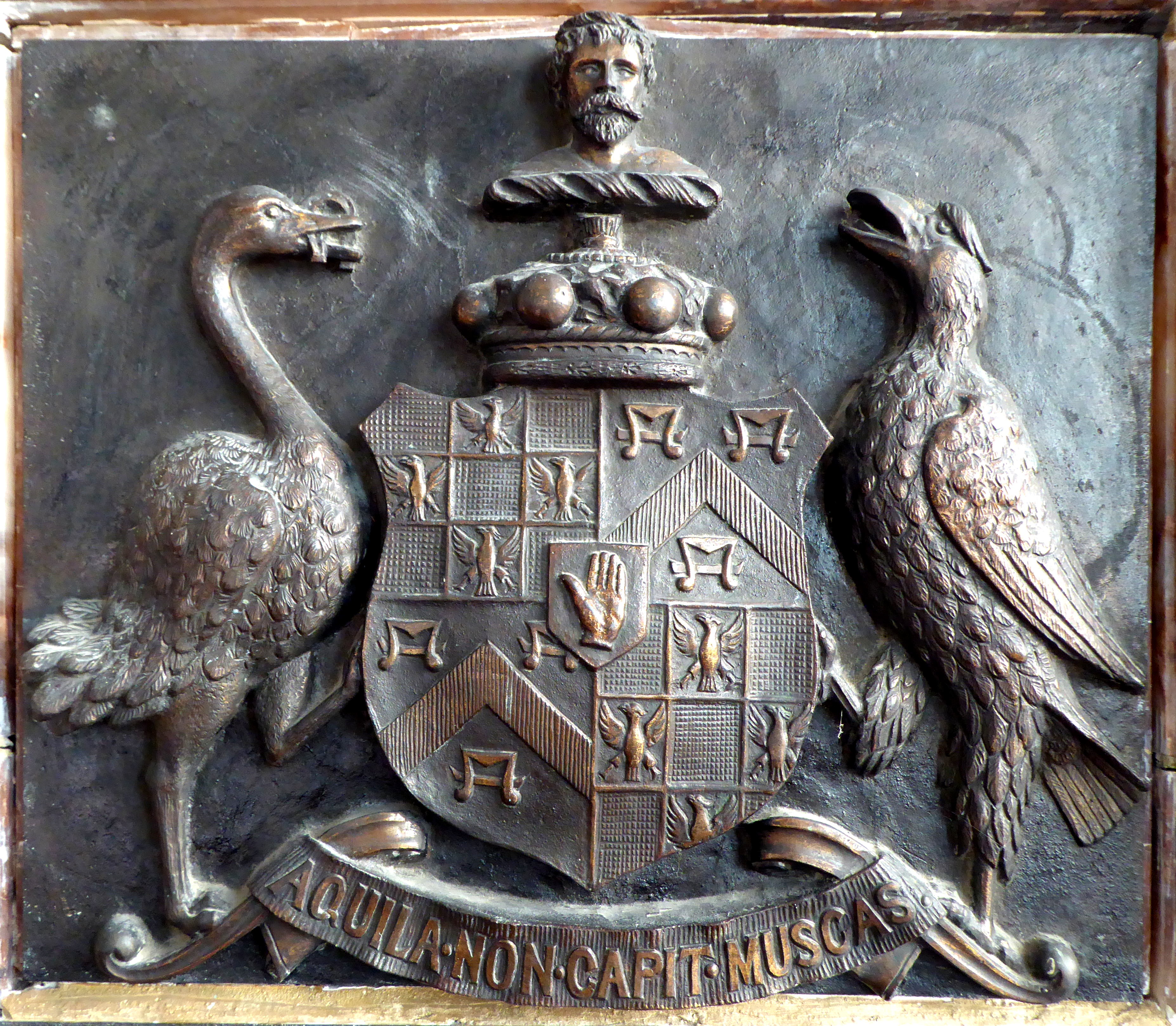 Heraldic achievement sculpted in bronze of John Yarde-Buller, 2nd Baron Churston (1846–1910), detail from 1901 Yarde-Buller memorial monument in Churston Ferrers Church, Devon. The shield shows the arms of Buller (Sable, on a cross argent quarter pierced of the field four eagles displayed of the first) quartering Yarde of Churston (Argent, a chevron gules between three water bougets sable) with a baronet's inescutcheon of the Red Hand of Ulster (the 2nd Baron was also the 4th Baronet). Above is a coronet of a baron, above which is the crest of Buller: A Saracen's head and shoulders couped affrontée proper. If this is blazoned alternatively as A Moor's head it possibly becomes a canting crest referring to the Buller's early seat of Morval in Cornwall. Supporters: Dexter: An ostrich proper in the beak a horse-shoe or, probably the crest of the ancient Ferrers family of Churston-Ferrers (ancestors of Yarde and hence of Buller), whose arms were: Argent, on a bend sable three horse-shoes or, the horse-shoe being a canting reference to the Latin words faber ferrarius, iron-worker, blacksmith, hence farrier. A sculpted figure of a bird's head holding in its beak a horseshoe appears on the "Yard Capital", circa 1500 (Tregaskes, Jean, Churston Story 1088-1998, 2nd edition, 1998, p.14 (church guidebook)), of the south-easternmost column of the nave of Churston-Ferrers Church. Sinister: An eagle sable. Latin motto of Buller below: Aquila Non Capit Muscas ("The eagle does not catch flies"). (Heraldry per: Montague-Smith, P.W. (ed.), Debrett's Peerage, Baronetage, Knightage and Companionage, Kelly's Directories Ltd, Kingston-upon-Thames, 1968, p.253)